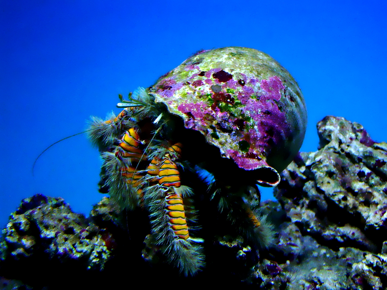 Aniculus maximus (Hairy Yellow Hermit, Large Hairy Hermit Crab), from the Waikiki Aquarium